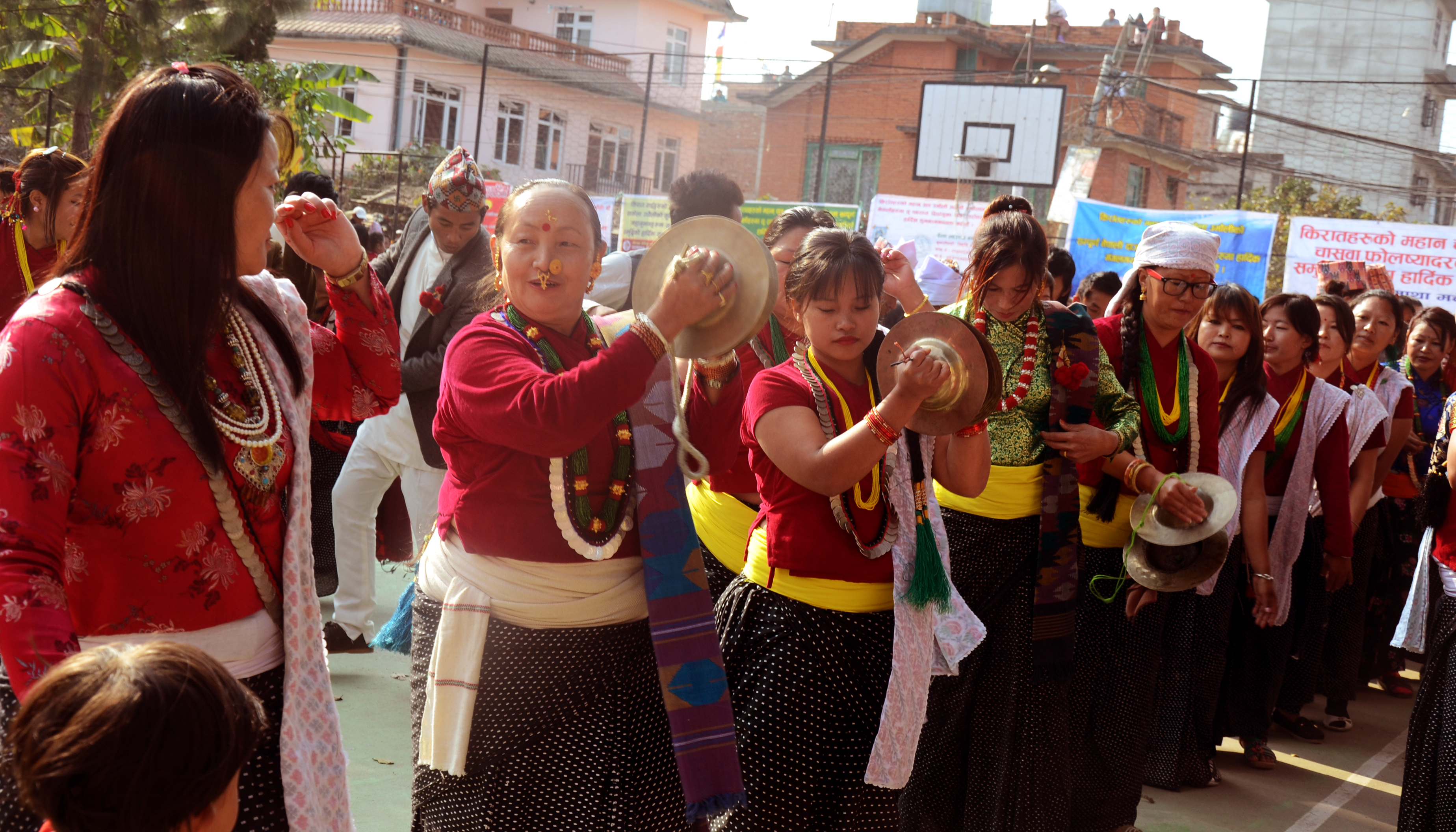 Sakela at Nakhipot, Kathmandu Nepal